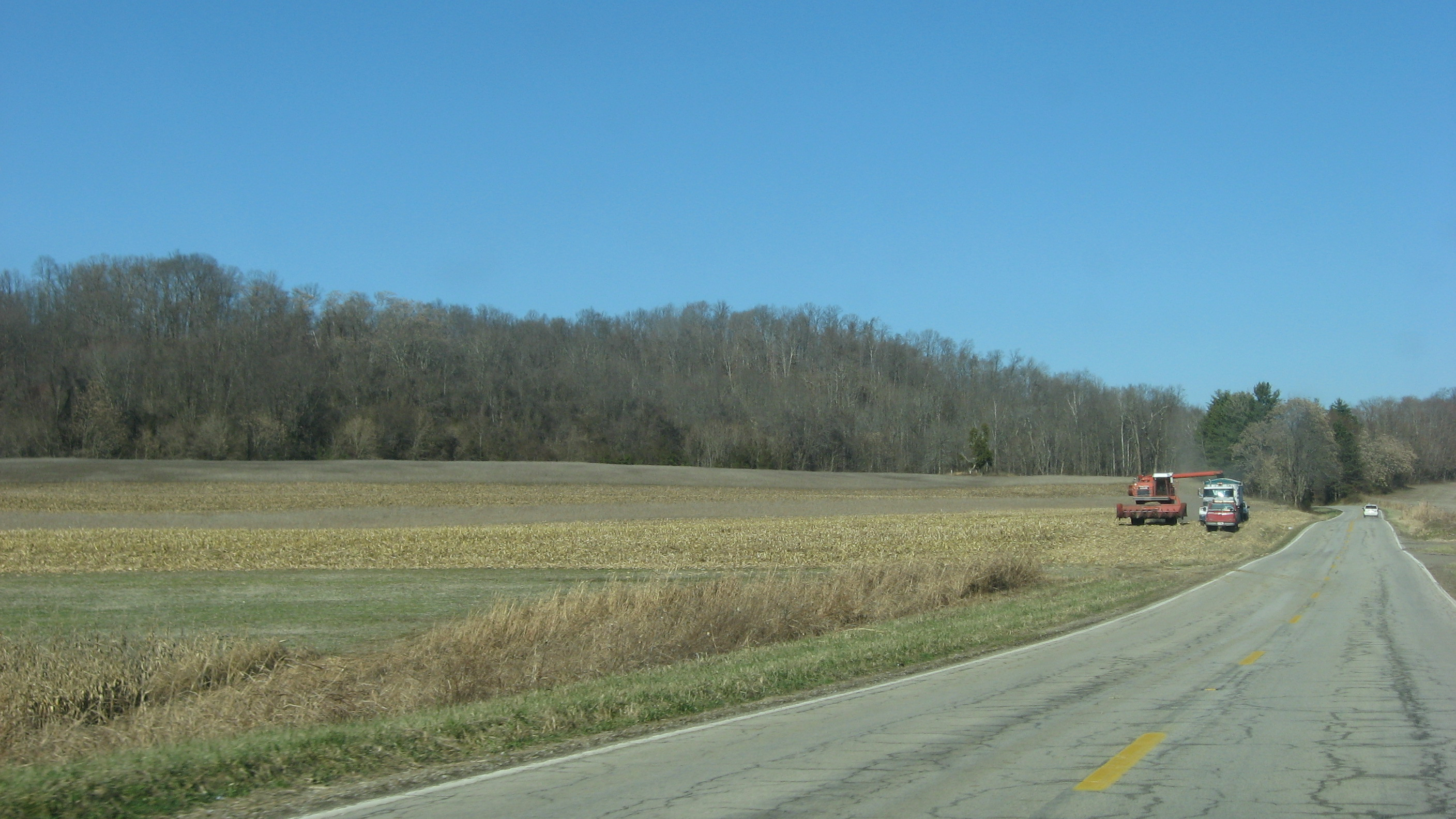 Farmland in the Big Bottom of the Muskingum River, located along State Route 266 below Stockport in Windsor Township, Morgan County, Ohio, United States. Harvester and truck are located to the north; despite the lateness of the season, the field was being harvested as I drove past.